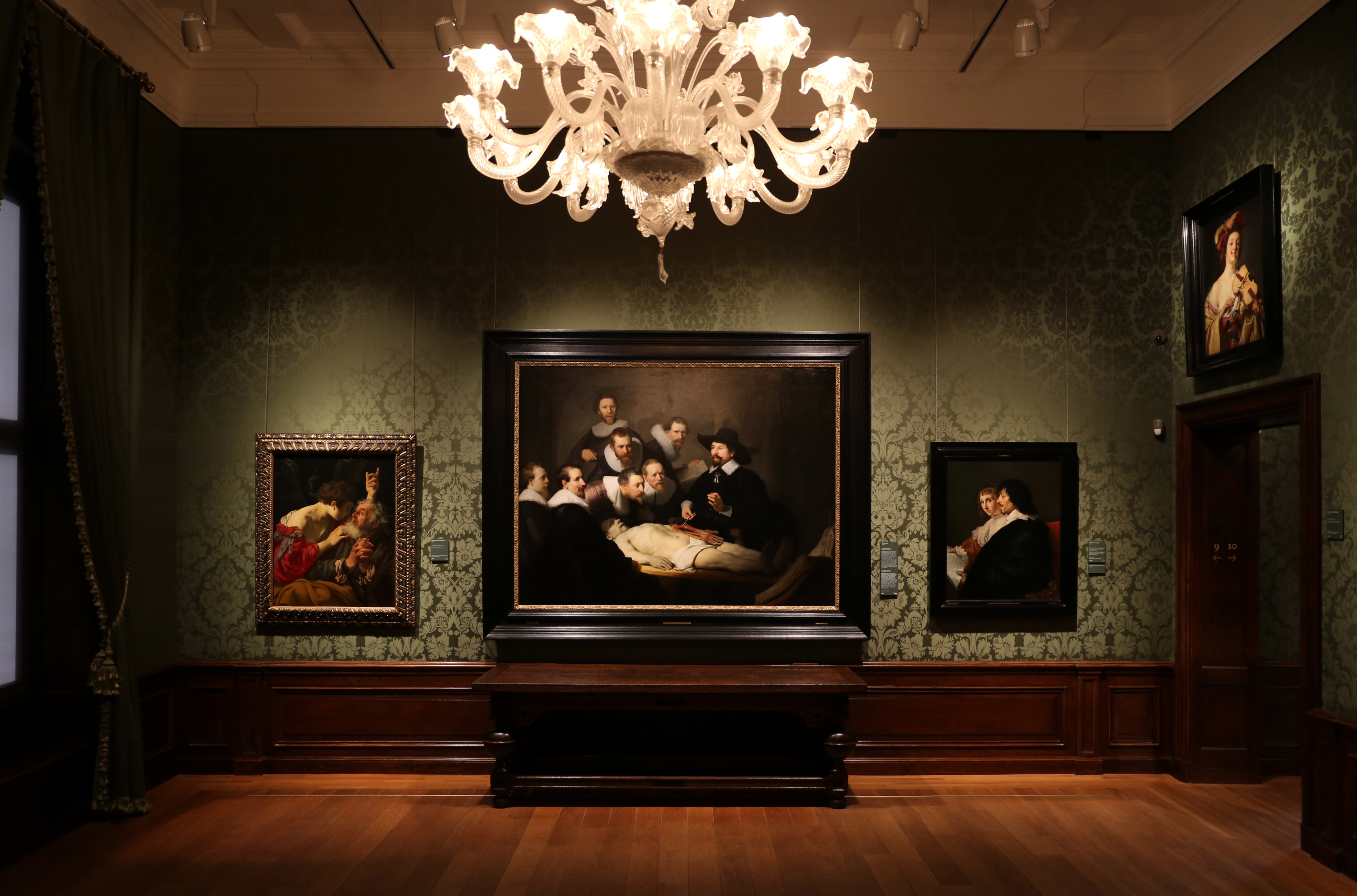 Paintings by Rembrandt in the Mauritshuis